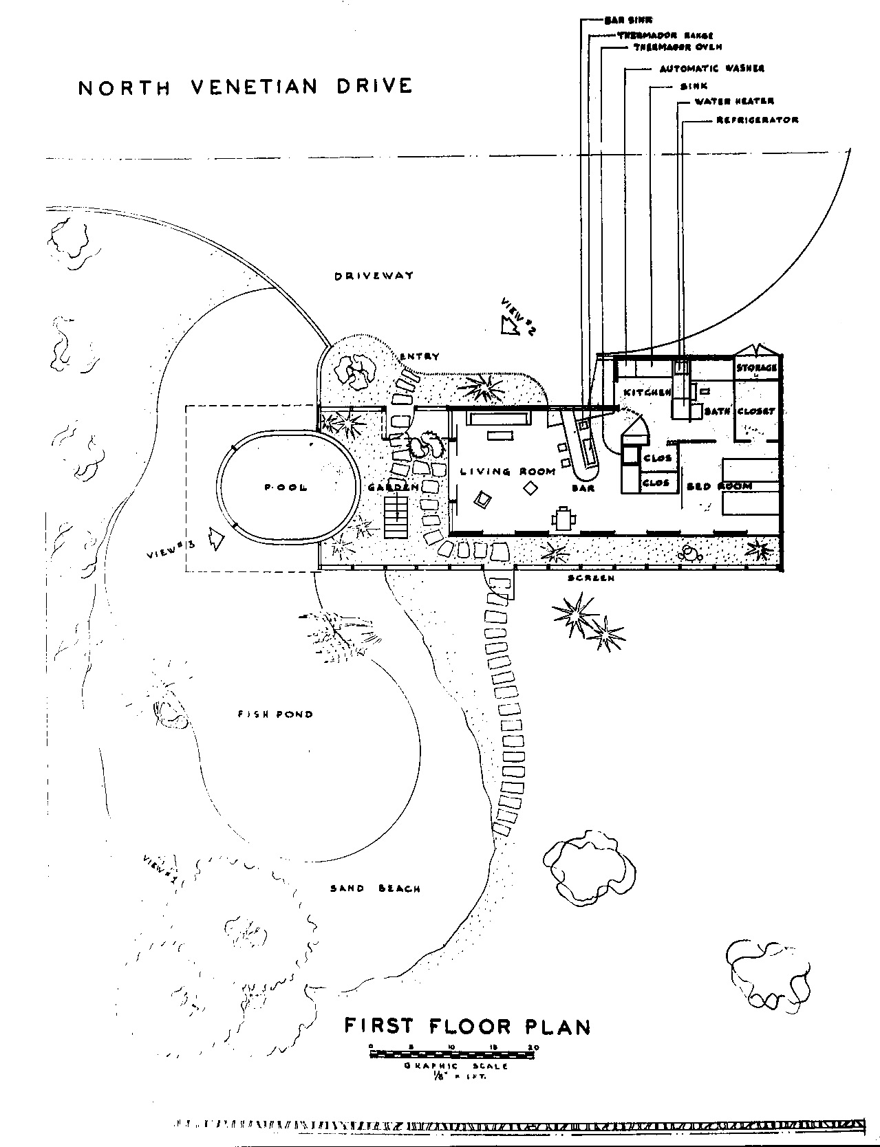 First floor plan of the Heller Residence (Bird-Cage House) designed by Igor B. Polevitzky.